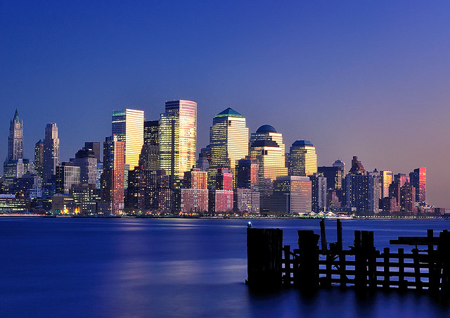 A view of NYS SkyLine